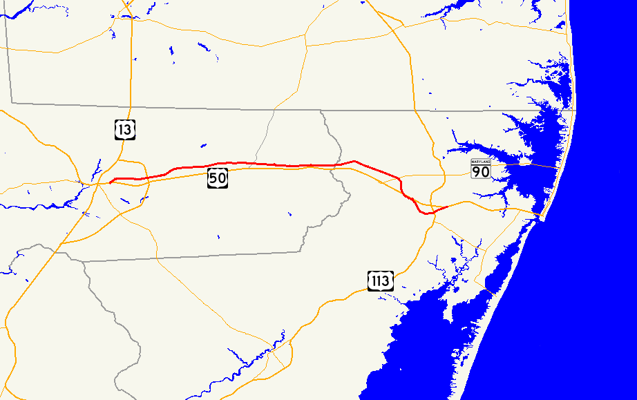 Map of Maryland Route 346